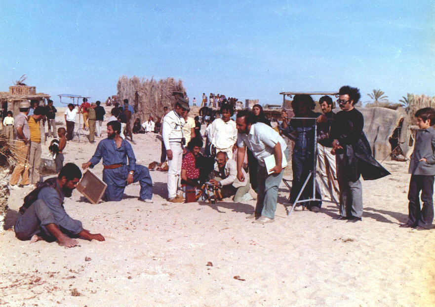 Scene from the Making of the film Tangseer, directed by Amir Naderi, with Behrouz Vossoughi